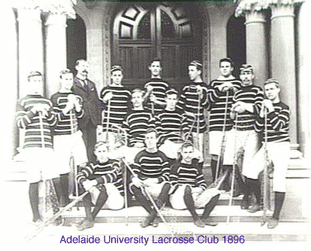 Adelaide University Lacrosse Club 'A' team. 1896 state premiers. Photograph taken in front of the Mitchell Building, University of Adelaide The printed original to this image is in the possession of the Adelaide University Lacrosse Club. Photographer unknown.